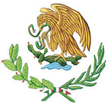 Interpretation of Mexican Eagle 1916